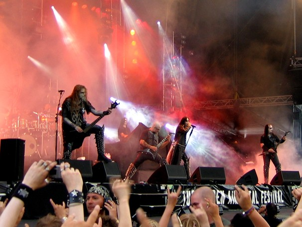 Dimmu Borgir at Tuska, Helsinki, Finland - July